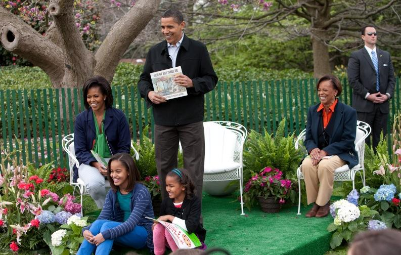 President Barack Obama, joined by First Lady Michelle Obama, their daughters, Sasha and Malia, and Michelle Obama's mother, Marian Robinson, prepares to read Where the Wild Things Are by Maurice Sendak on Monday, April 13. 2009, to children at the White House Easter Egg Roll.